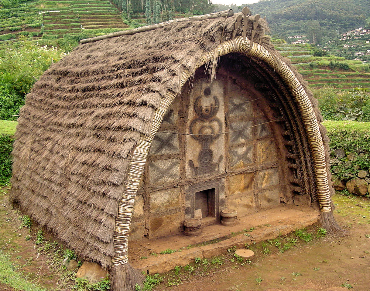 Hut of Toda tribe (Nilgiris, India)